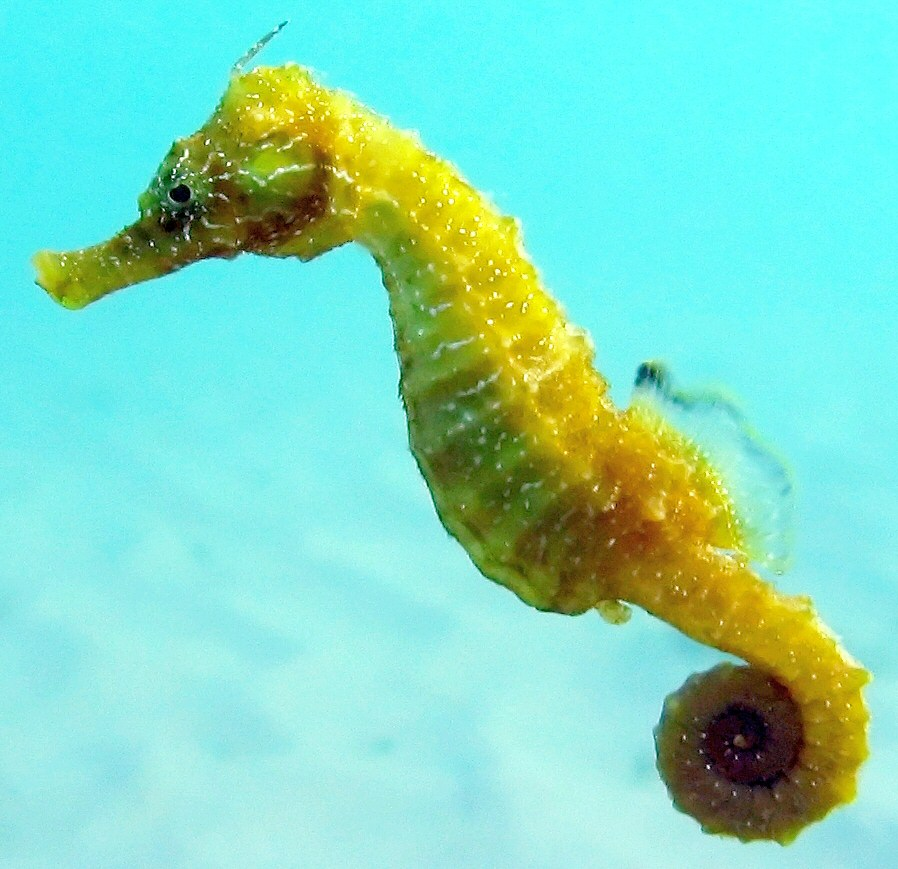 Hippocampus guttulatus